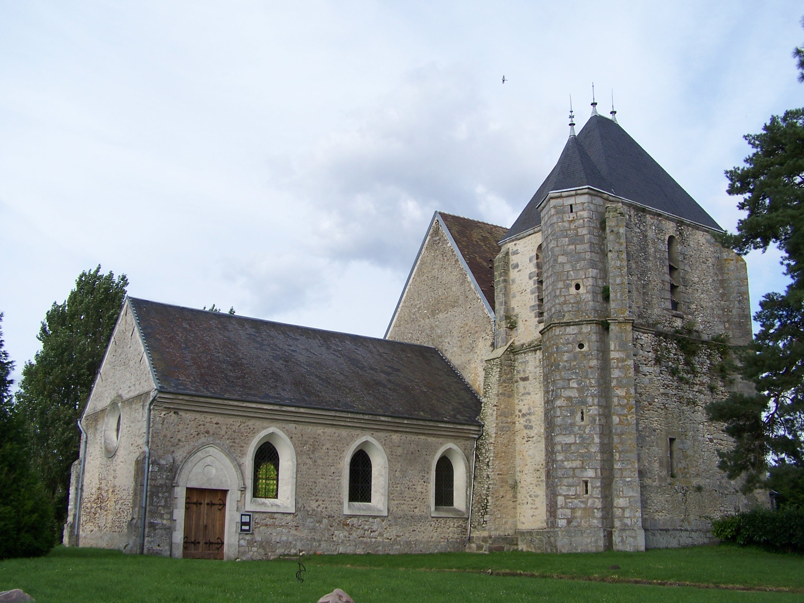 Church of Civry-la-Forêt (Yvelines, France)